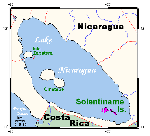 Map showing Solentiname Islands in Lake Nicaragua.